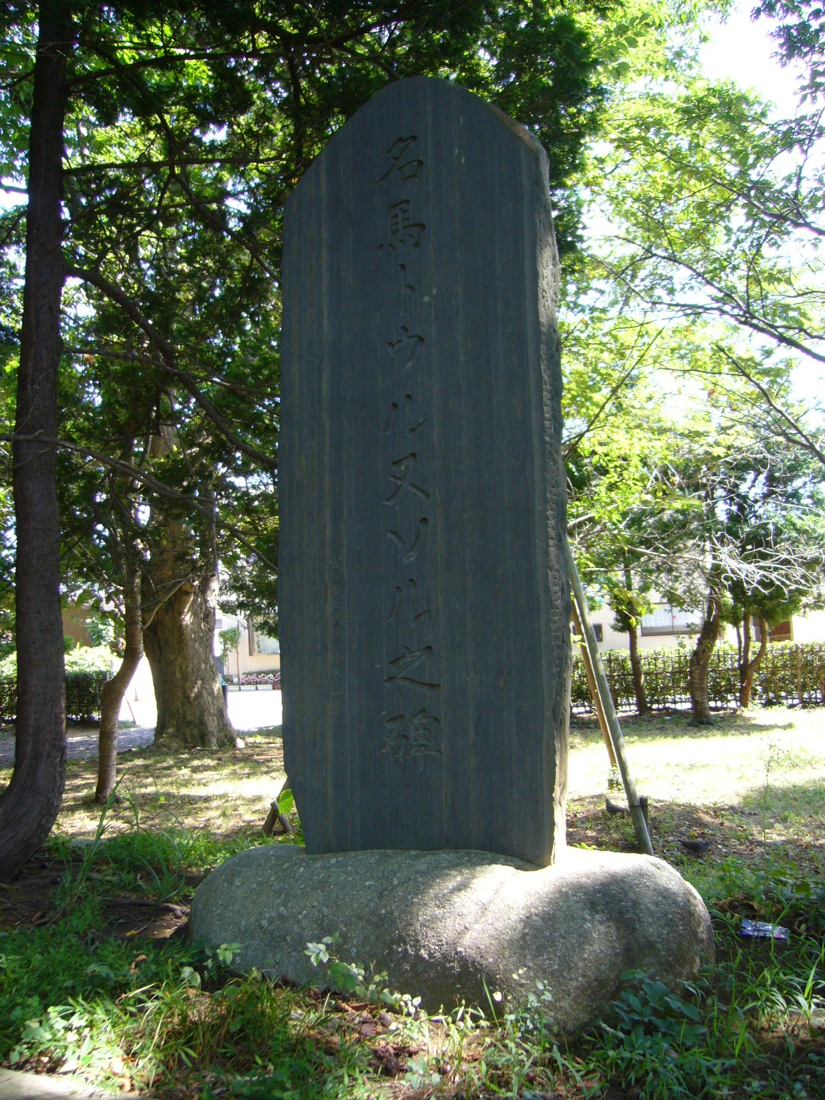 monument-japanese-racehorse-"Tournesol",narita-city,japan.